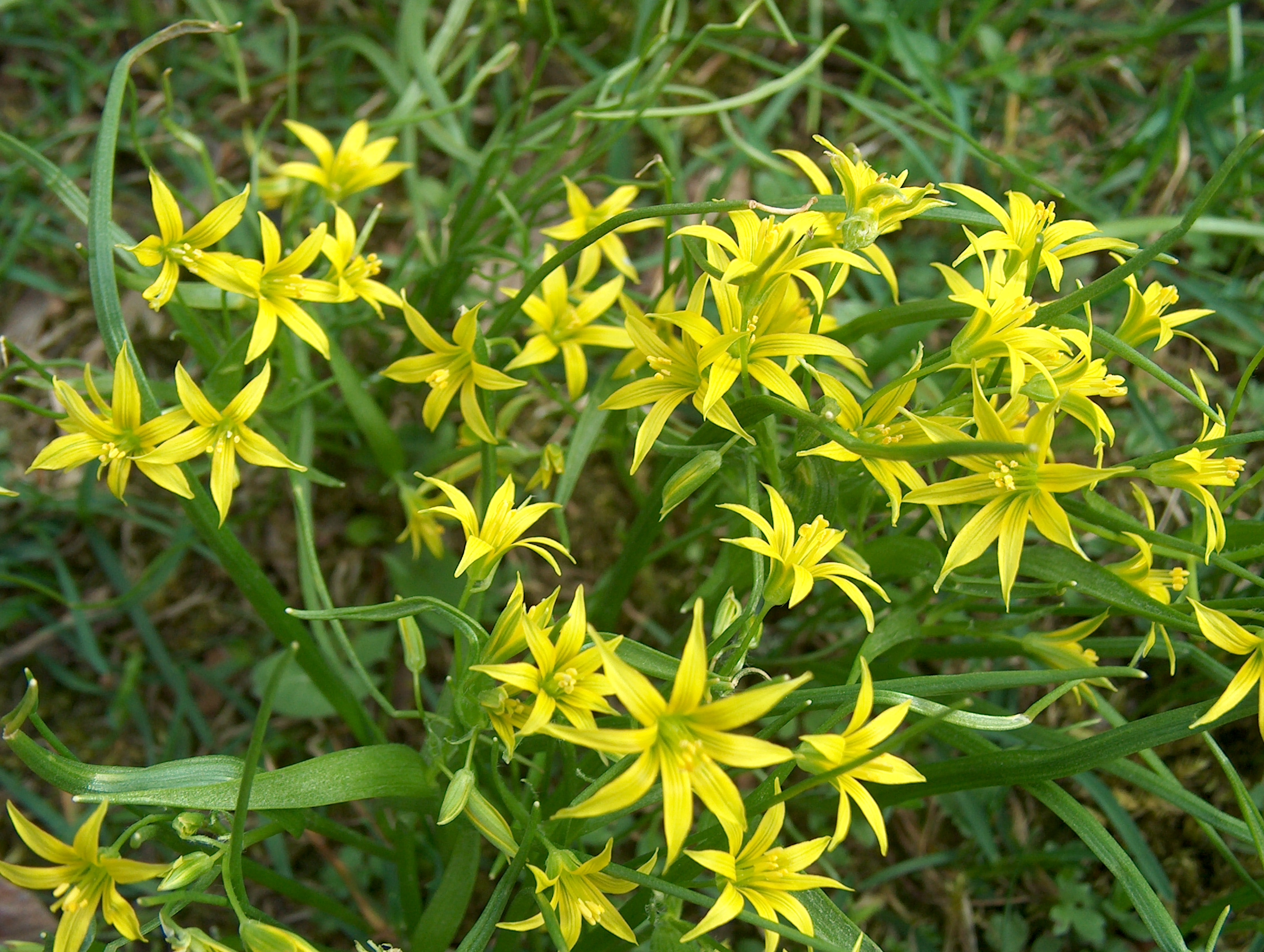 Least Gagea (Gagea minima) - Kerava, Finland, in May 2008